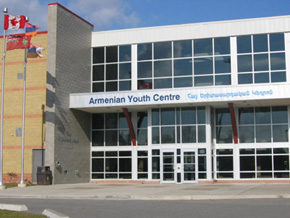 Armenian Youth Centre of Toronto